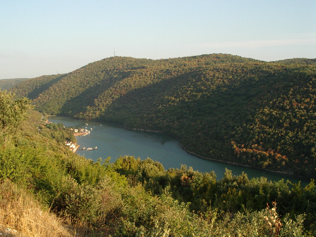 Lim Canal in western Istria, Croatia